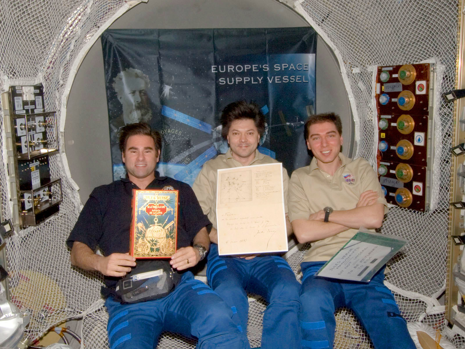 Expedition 17 crewmembers pose for a portrait inside de Jules Verne ATV with original manuscript and XIX century book by Jules Verne.